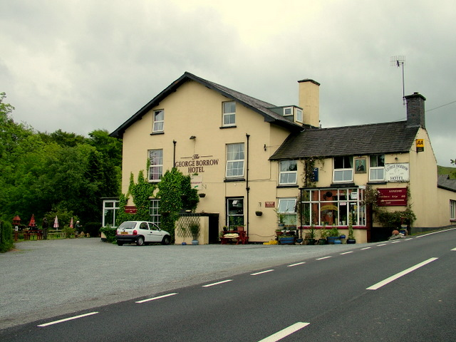 George Borrow Hotel at Ponterwyd A 17th century inn on the A44 at Ponterwyd.